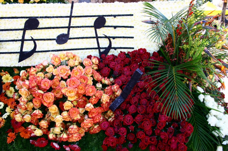 en:2006 Rose Parade, float and flowers in Pasadena, California